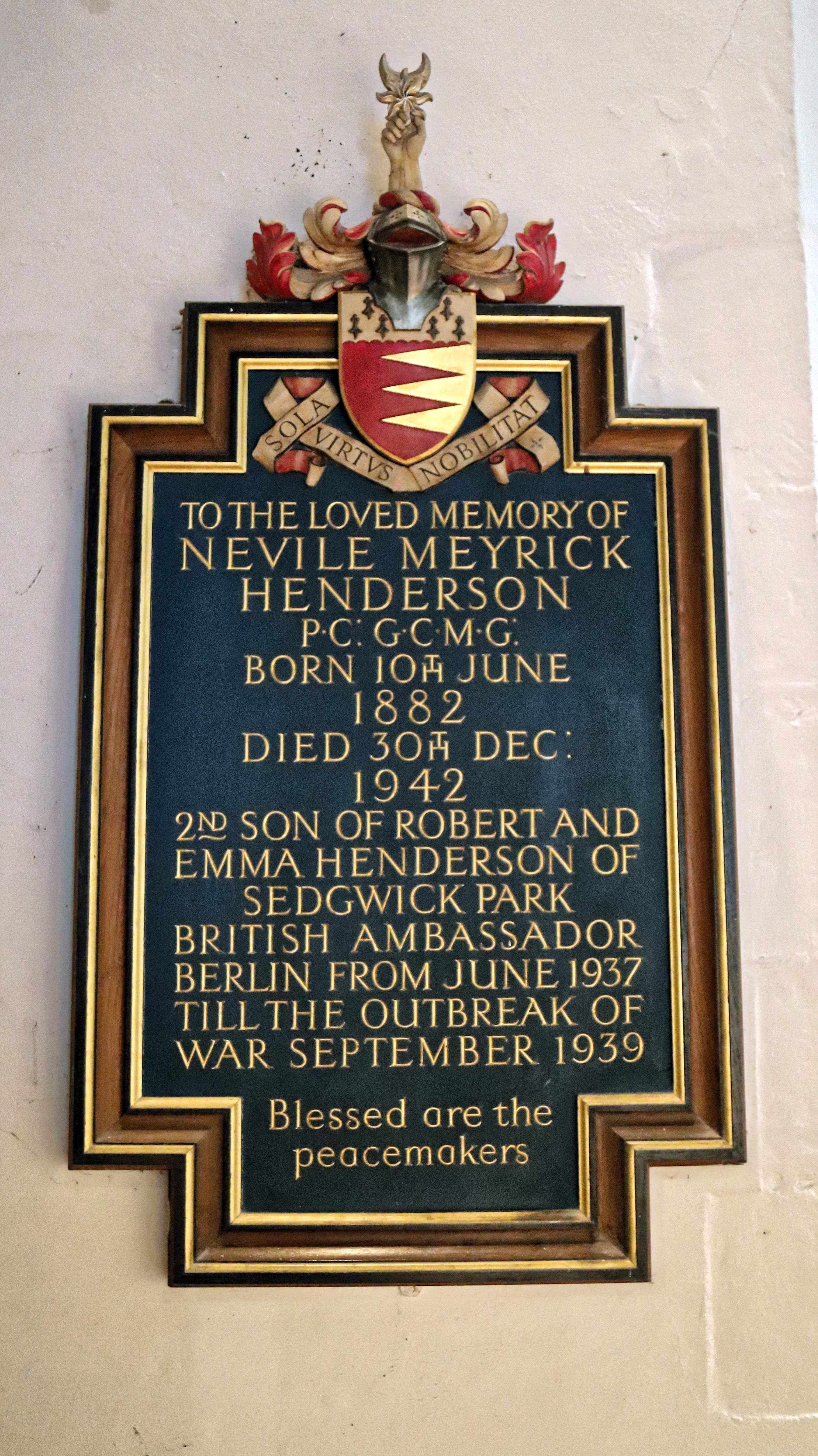 Memorial tablet plaque to Nevile Meyick Henderson (1882–1942), British Ambassador to Germany from June 1937 to 3 September 1939, and son to Robert and Emma Henderson of Sedgwick Park, on the nave south wall of the Grade II listed St Andrew's Church on Nuthurst Street (aka Harriots Hill) in the village of Nuthurst, West Sussex, England.Camera: Canon EOS 6D Mark II with Canon EF 24-105mm F4L IS USM lens.Software: File lens-corrected, optimized, perhaps cropped, with DxO OpticsPro 11 Elite, and likely further optimized with Adobe Photoshop CS2.